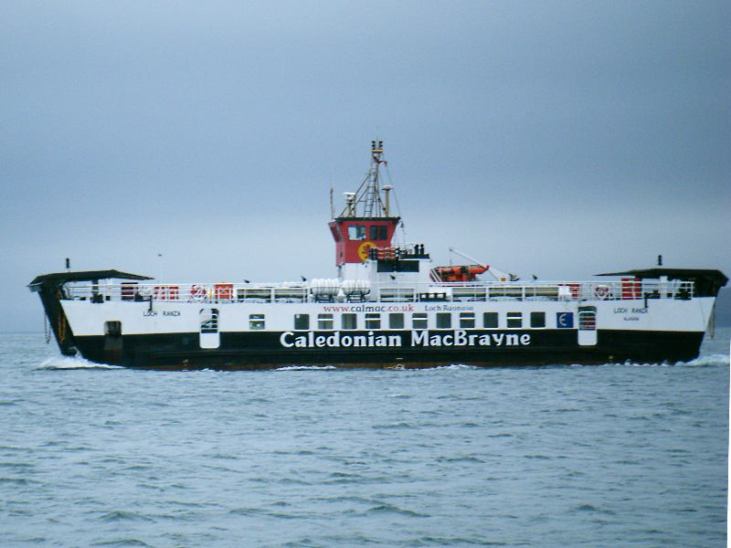 Gigha ferry, MV Loch Ranza, approaching Ardminish, Gigha